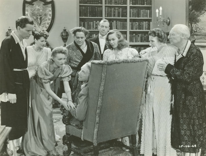 Press photo of the cast of the 1942 film "The Living Ghost". Left to right: Howard Banks, Edna Johnson, Jane Wiley, James Dunn, Gus Glassmire, Norman Willis, Joan Woodbury, Minerva Urecal, J. Arthur Young